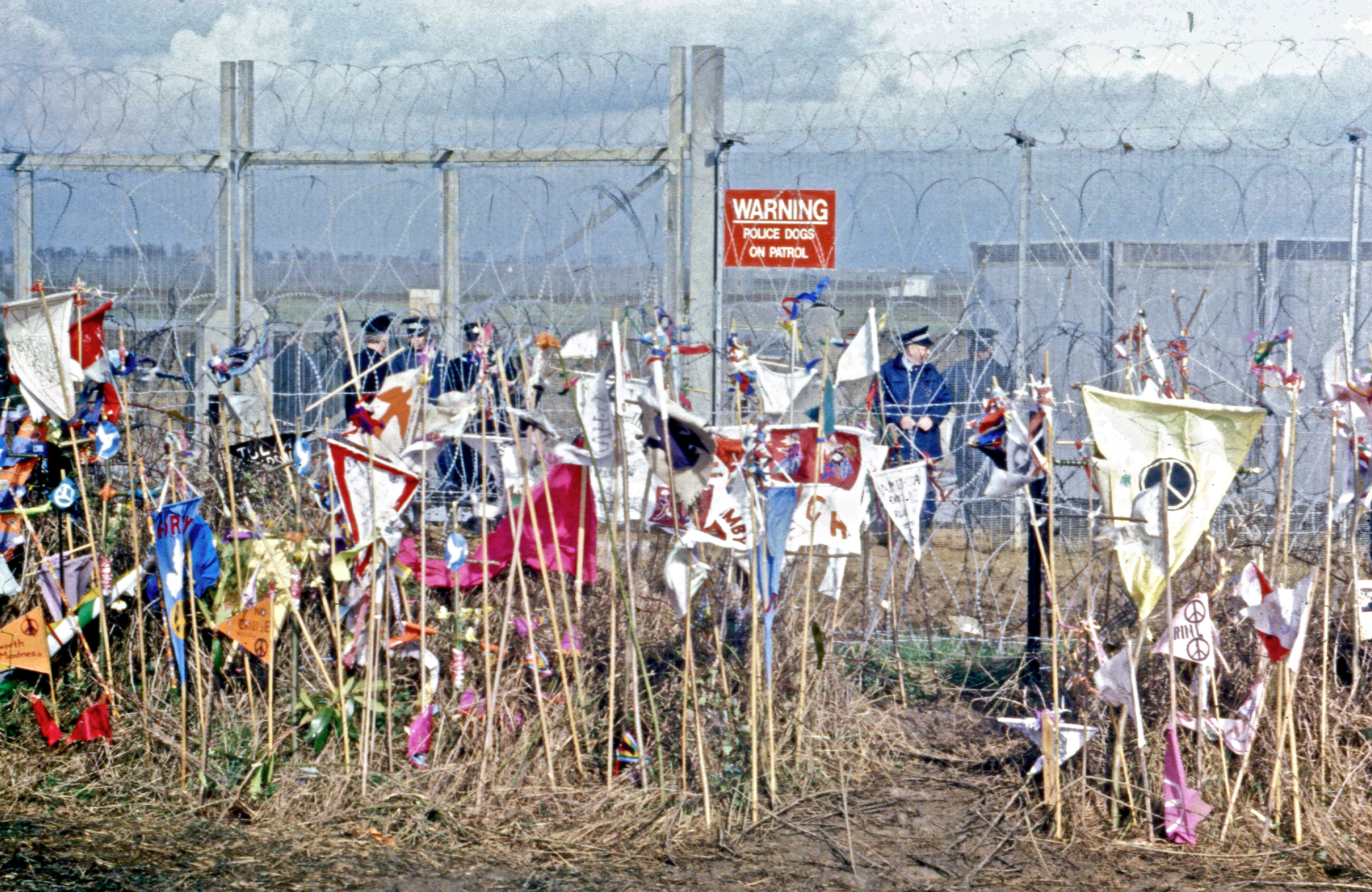 8 April